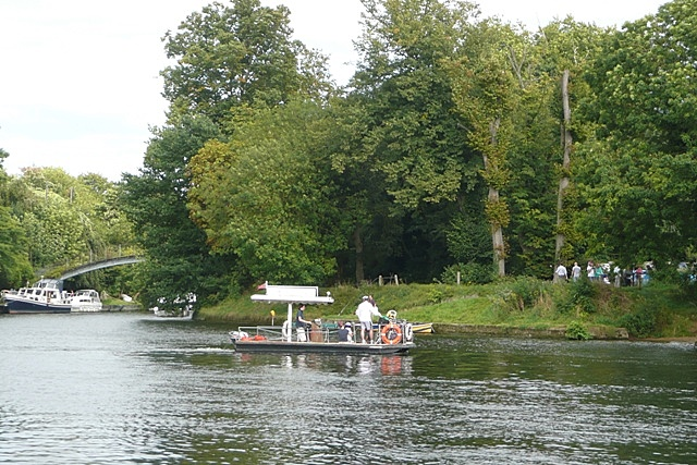 Shepperton to Weybridge Ferry, linking the towns of Shepperton and Weybridge across the River Thames in the English county of Surrey. For more information see the Wikipedia article Shepperton to Weybridge Ferry.